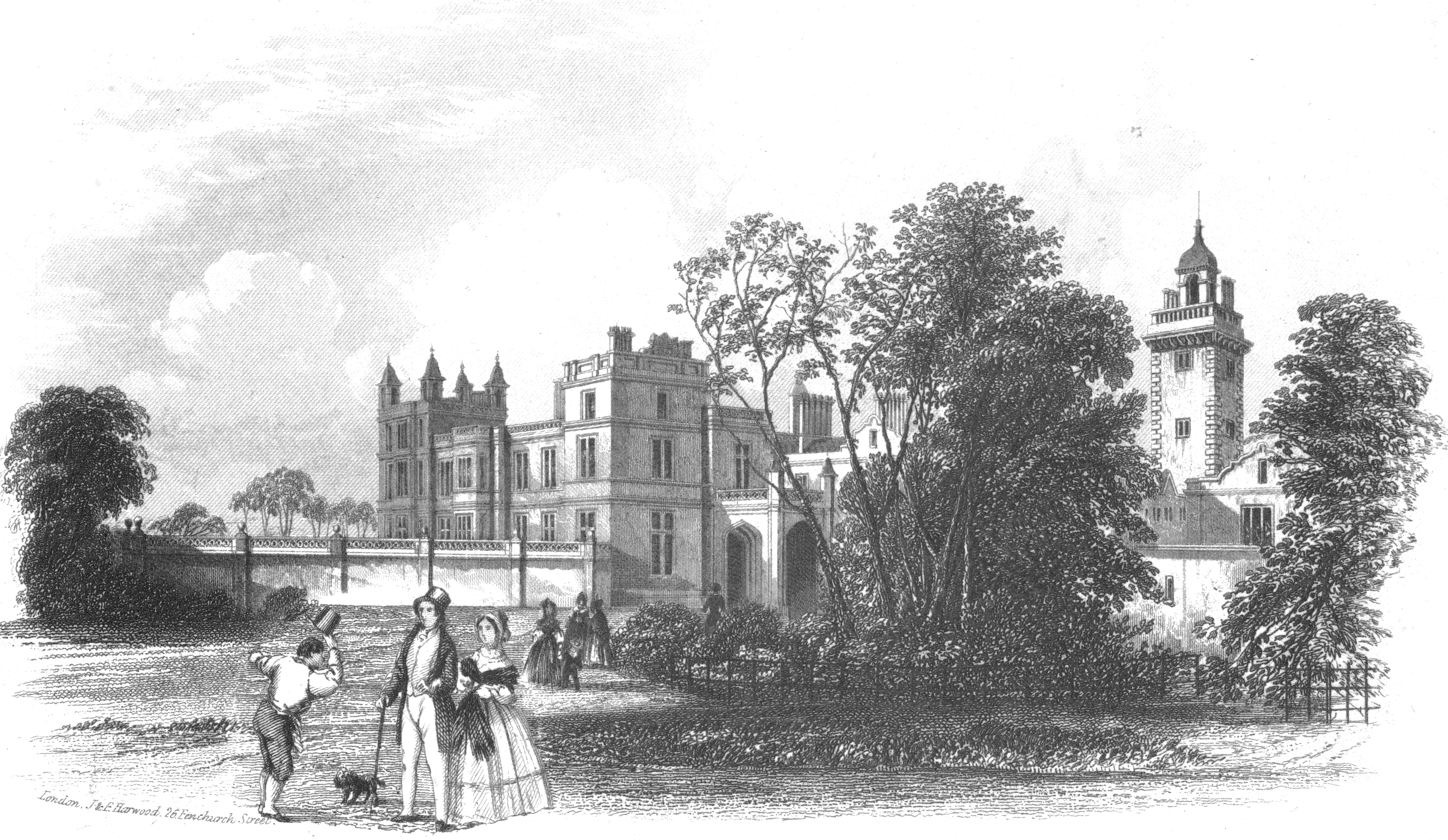 View of Drayton Manor in 1842, the home of Sir Robert Peel